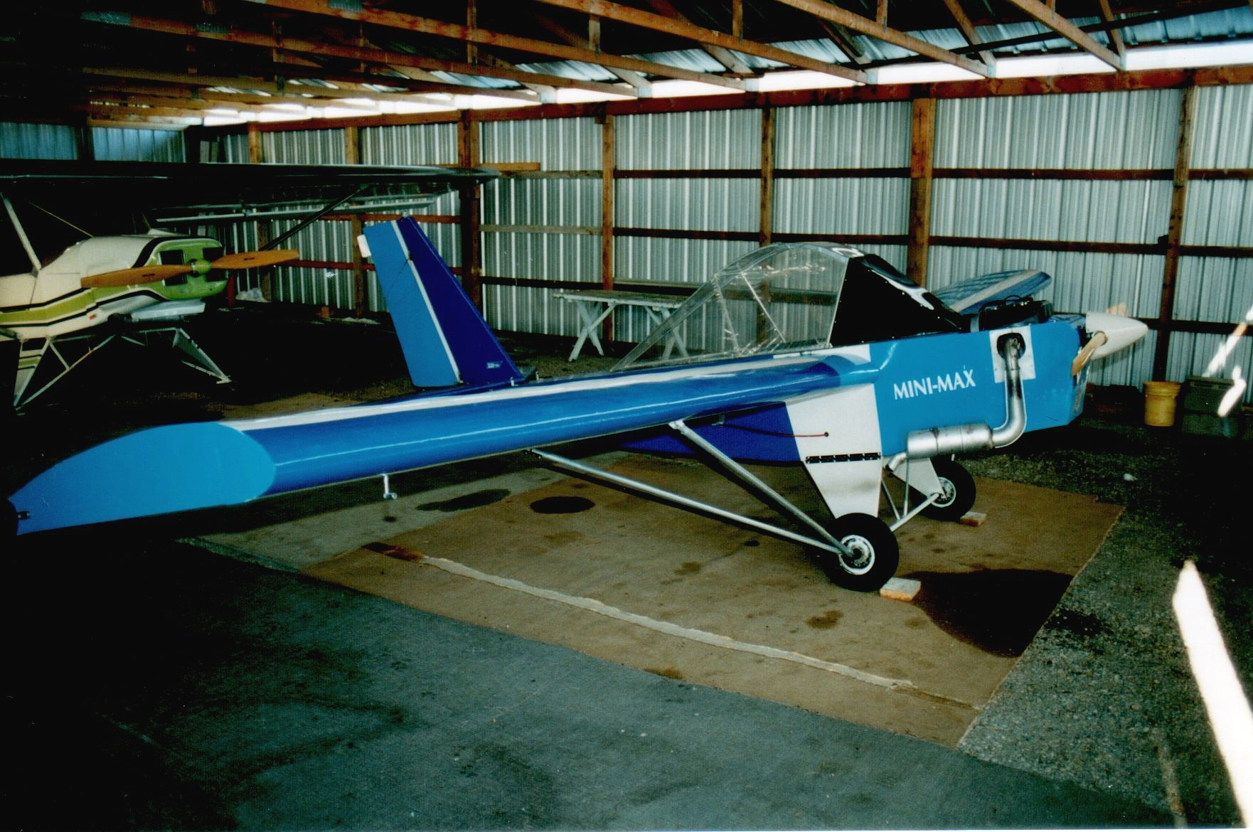 A TEAM 1100R Mini-MAX at Indus Airport, Alberta, Canada